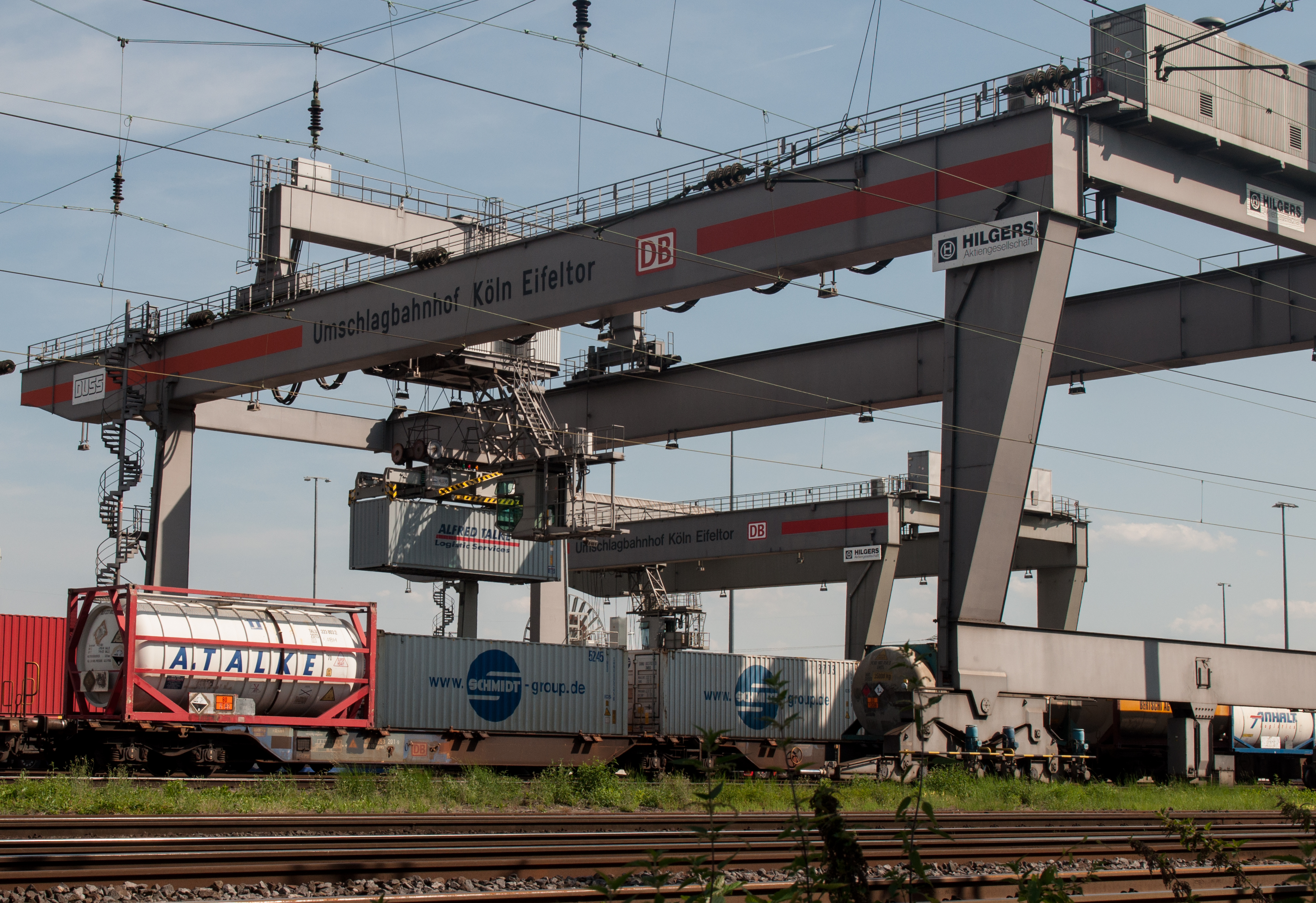 Portal crane at Cologne Eifeltor